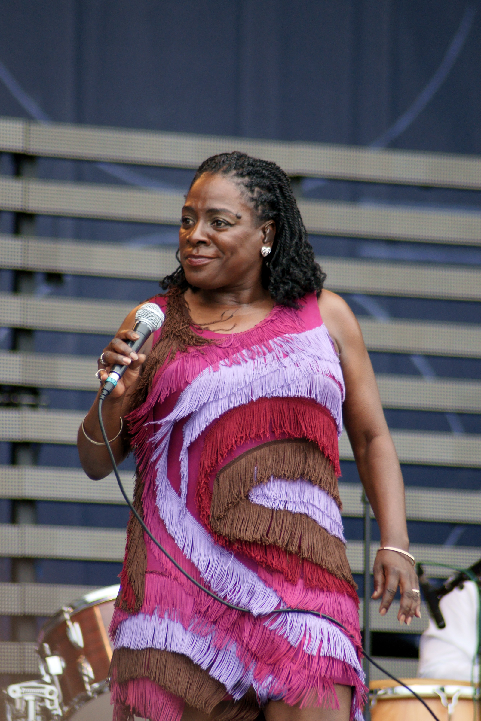 Sharon Jones & The Dap-Kings performing in Pori Jazz 2010.